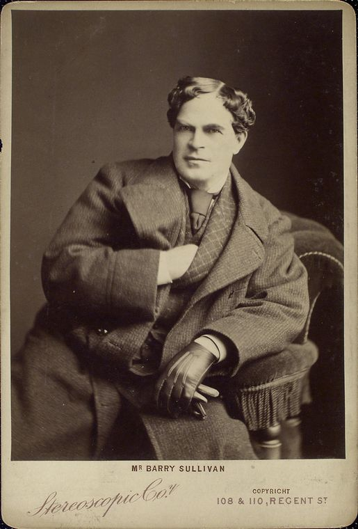 Barry Sullivan portrait early in his career